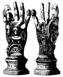 The Emblematic Hand of the Mysteries - A hand covered with numerous symbols was extended to the neophytes when they entered into the Temple of Wisdom. An understanding of the symbols embossed upon the surface of the hand brought with it Divine power and regeneration. Therefore, by means of these symbolic hands the candidate was said to be raised from the dead [1]